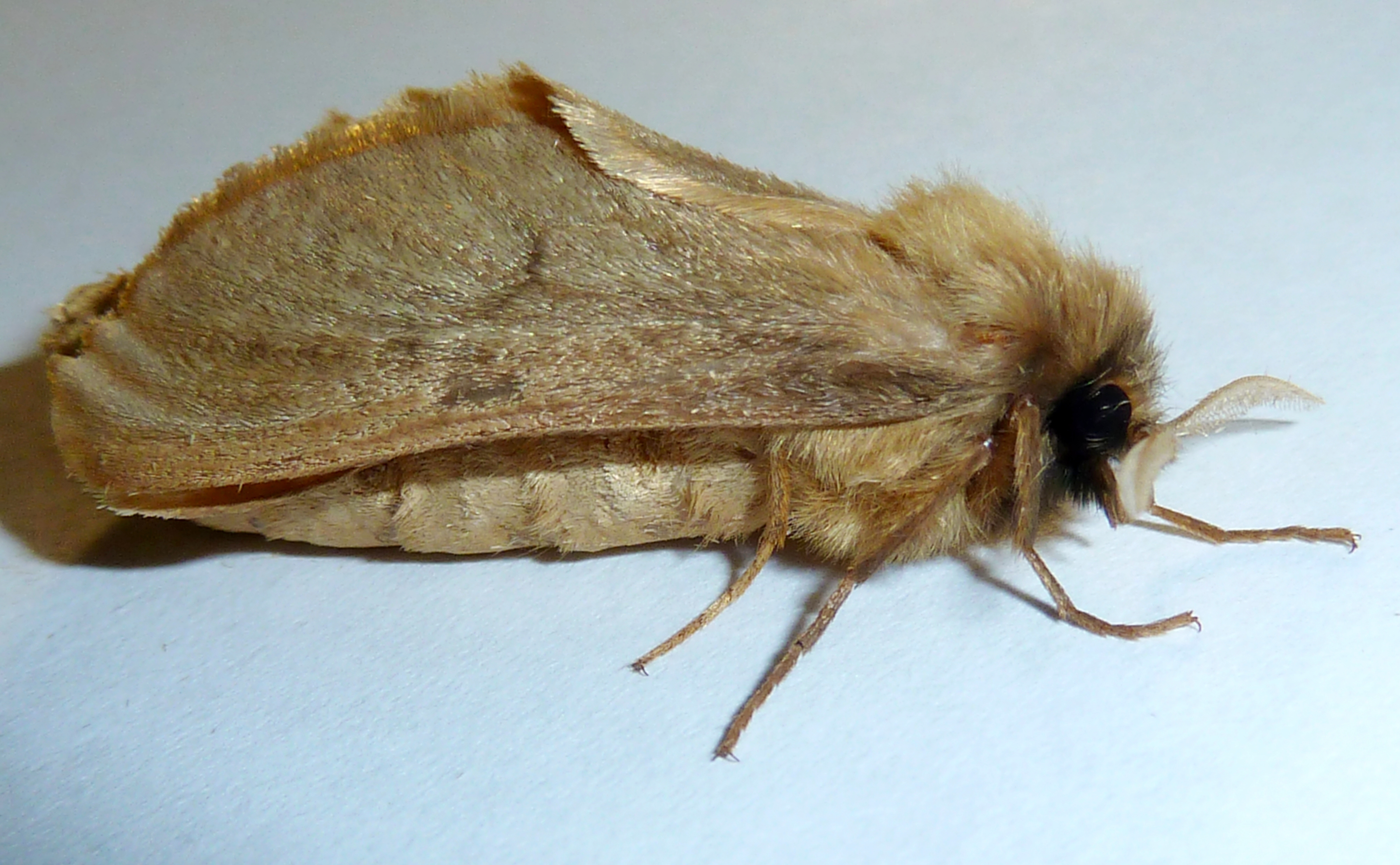 Gorgopis libania in suburban Pretoria